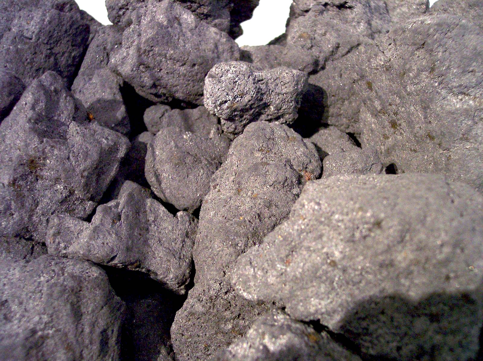 coke